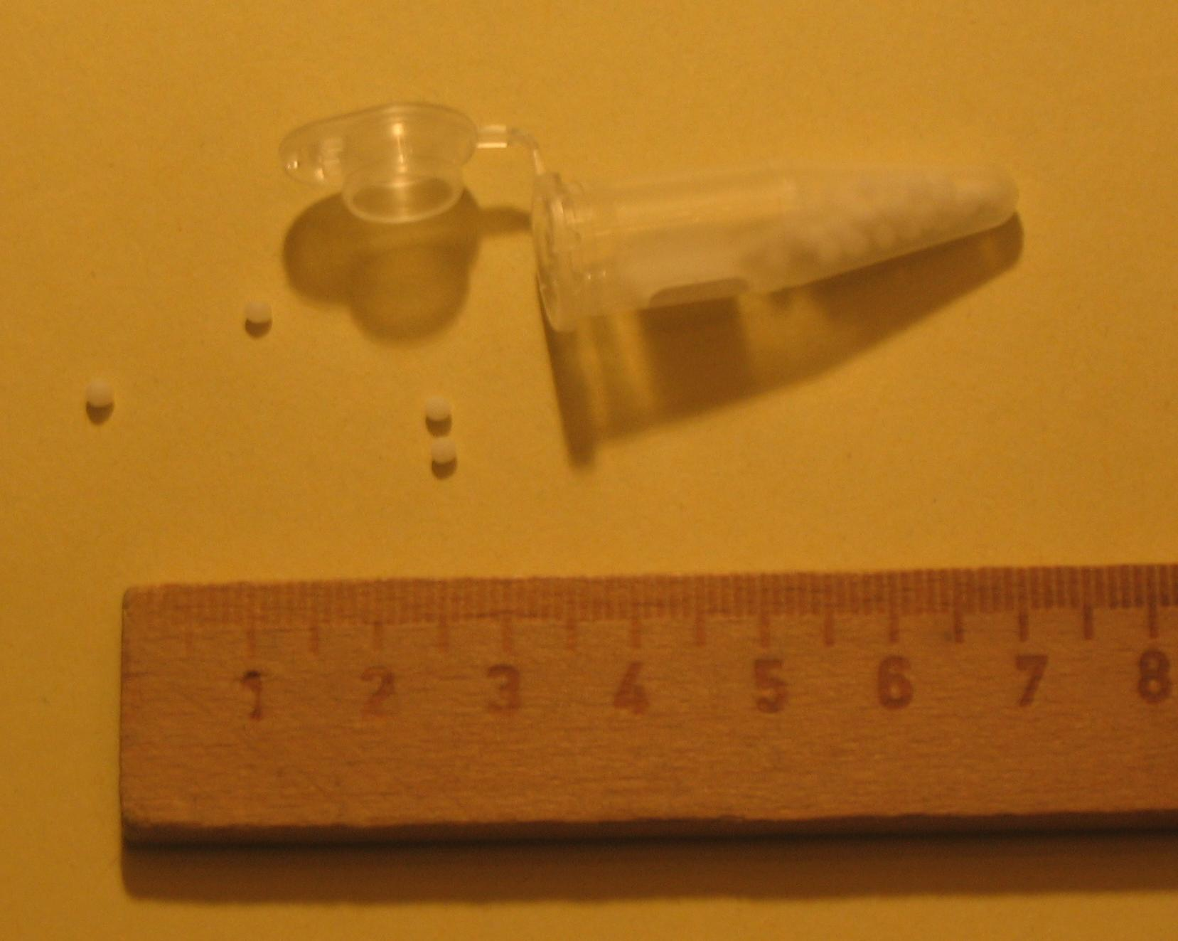 Globuli, used in homeopathy. Photo taken on December 7, 2006. Photo by User:Jarlhelm